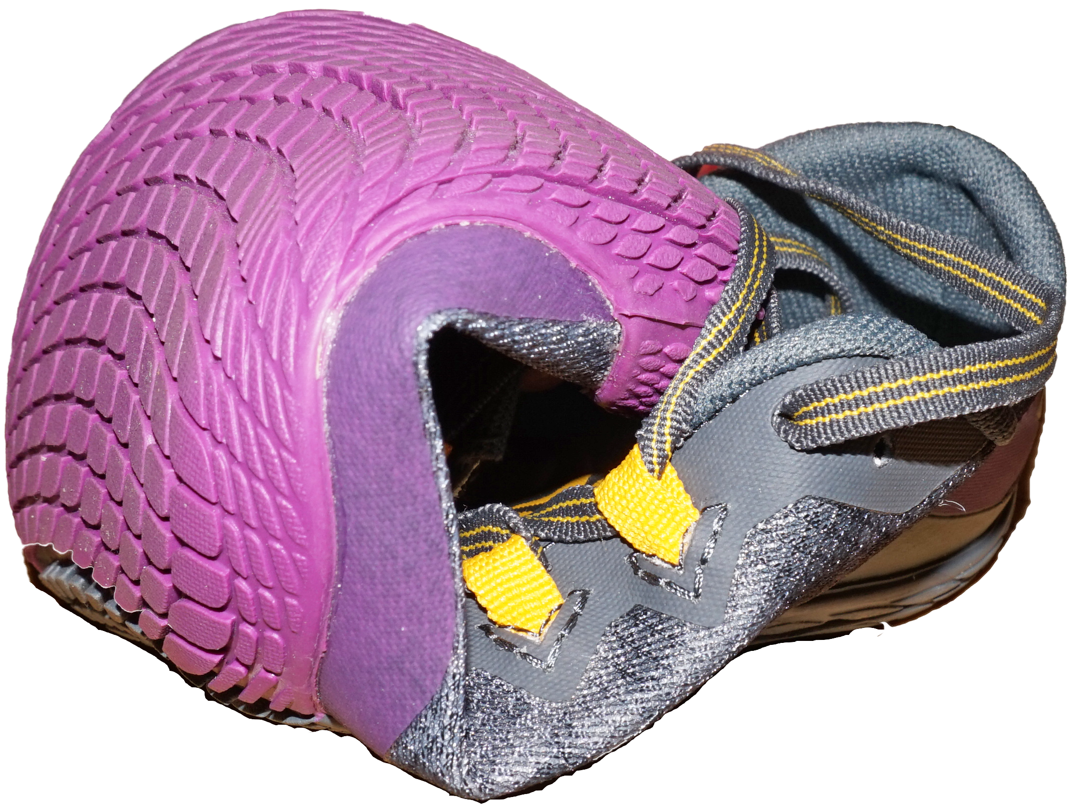 A barefoot running shoe Merrell Vapor Glove 3 with Vibram sole being rolled. Size: 38, weight 145 grams.